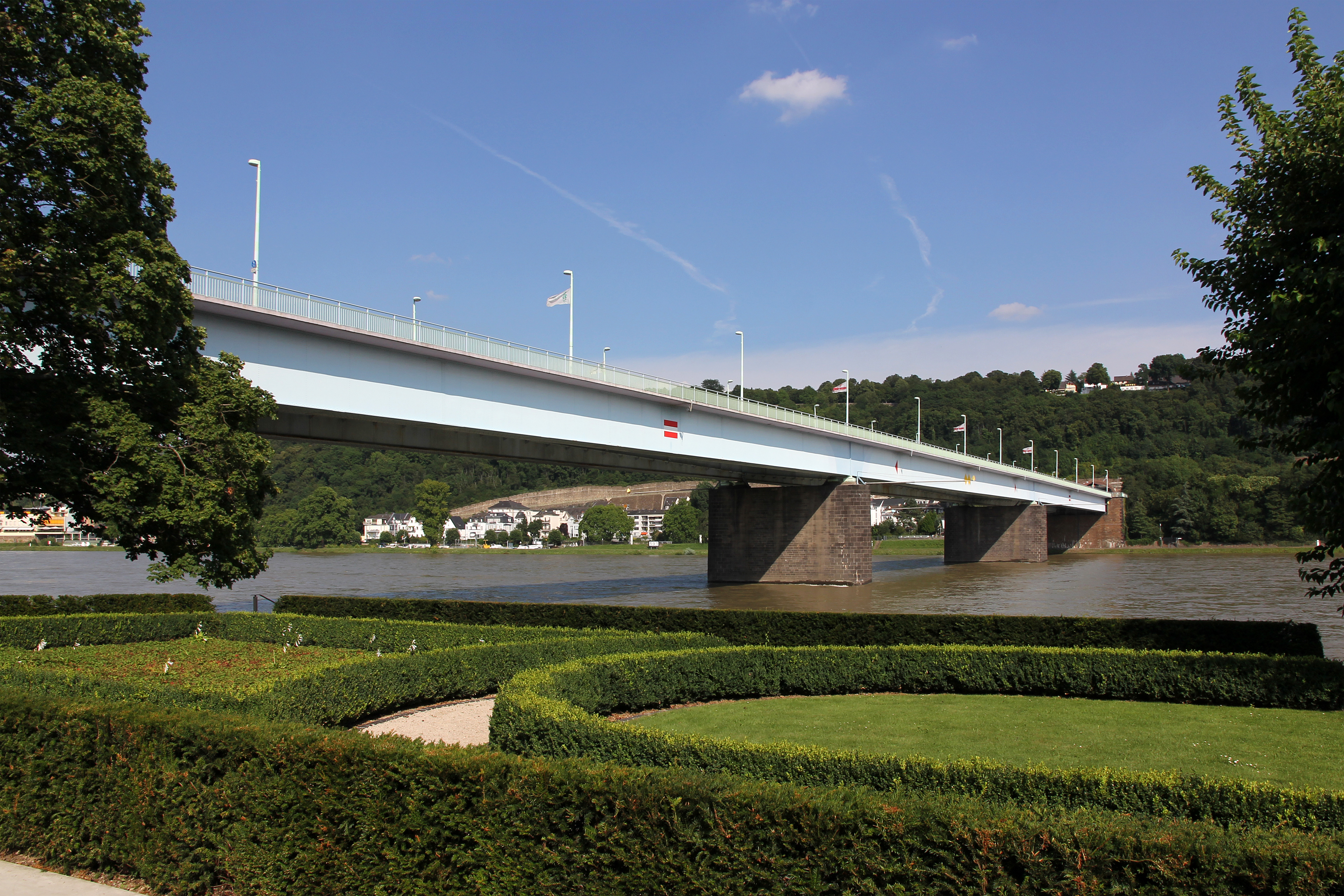 Pfaffendorf Bridge in Koblenz